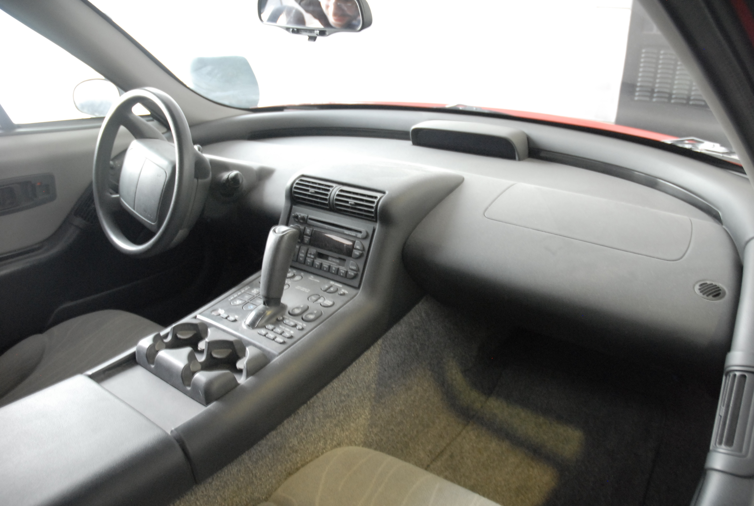 A picture of the interior of the General Motors EV1 of the 1990's, an electric vehicule. picture taken while the vehicule was on display at CCS, a school of design in Detroit. picture taken by the author.